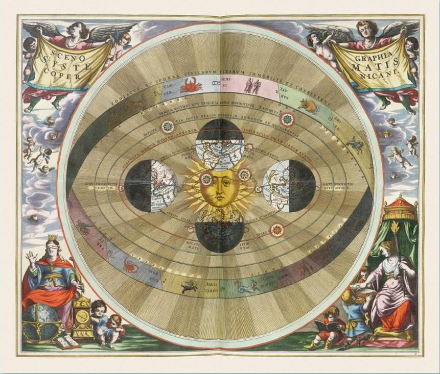 Map from the 1708 Valk & Schenk edition of Andreas Cellarius' Harmonia Macrocosmica.